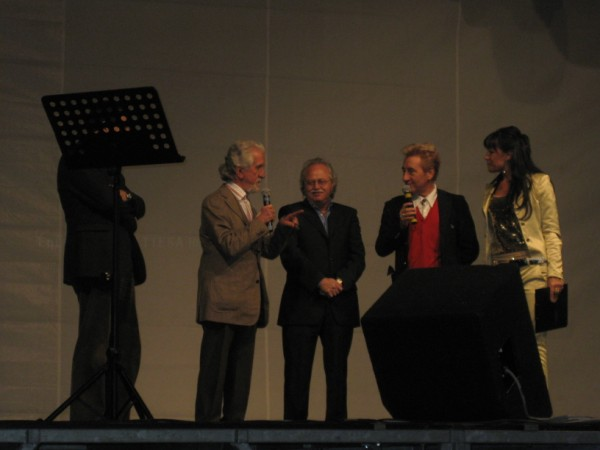 Elvio Monti, Silvano Chimenti, Dario Salvatori, Floriana Rignanese on the stage during the event Homage to Pino Rucher, a life for the guitar held in Manfredonia